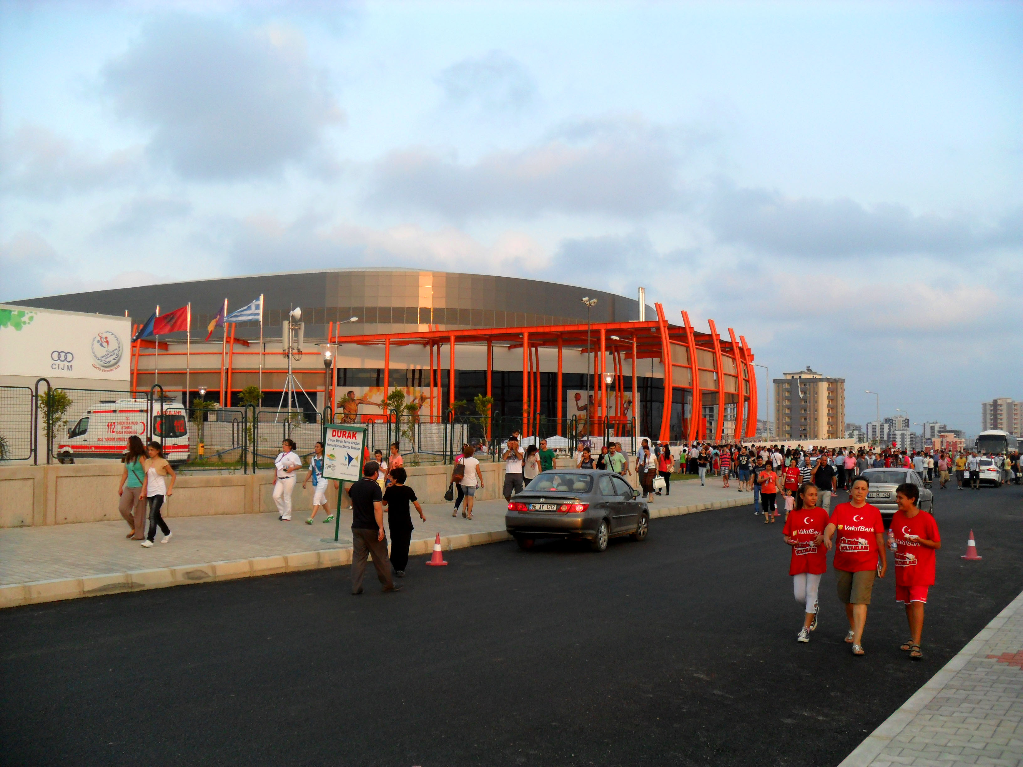 Servet Tazegül Sportshall which was used in 2013 Mediterranean Games